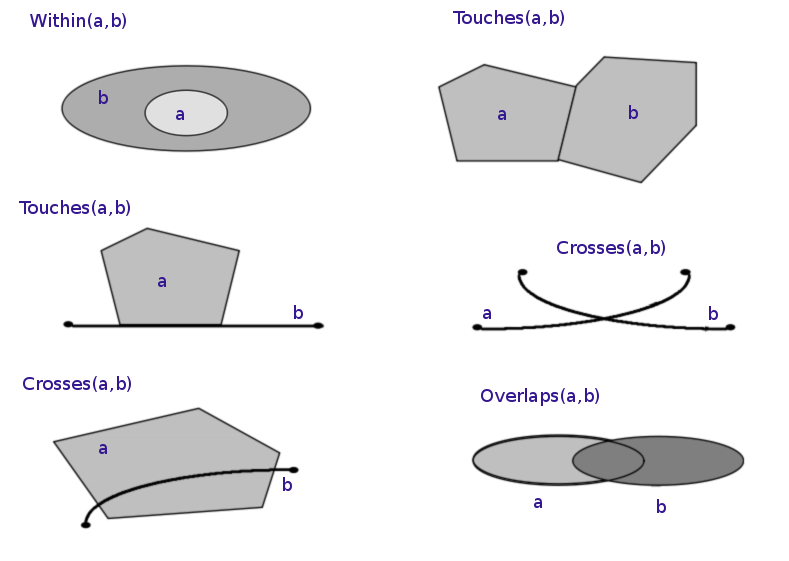 examples of Topologic Spatial Relarions